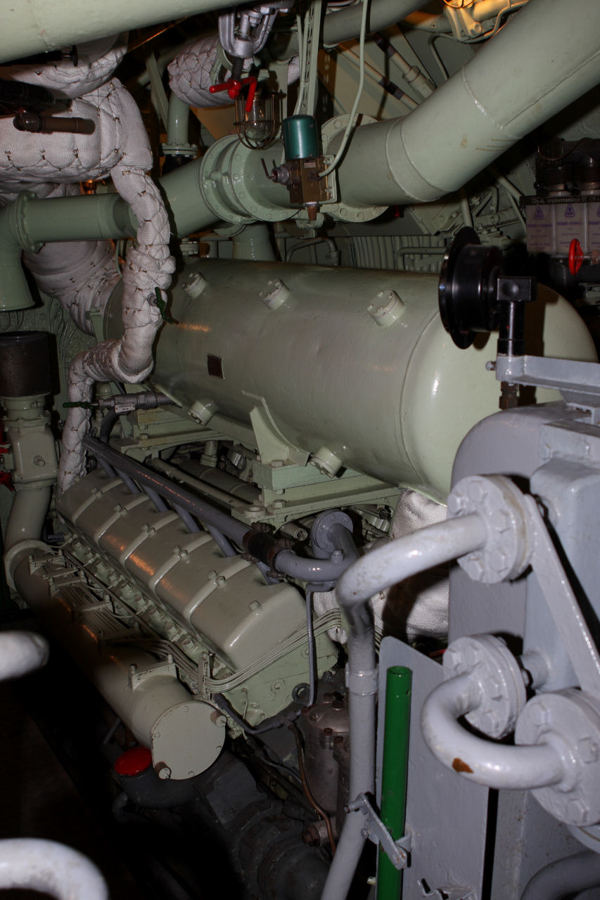 Diesel engine room of submarine Wilhelm Bauer (ex U 2540).